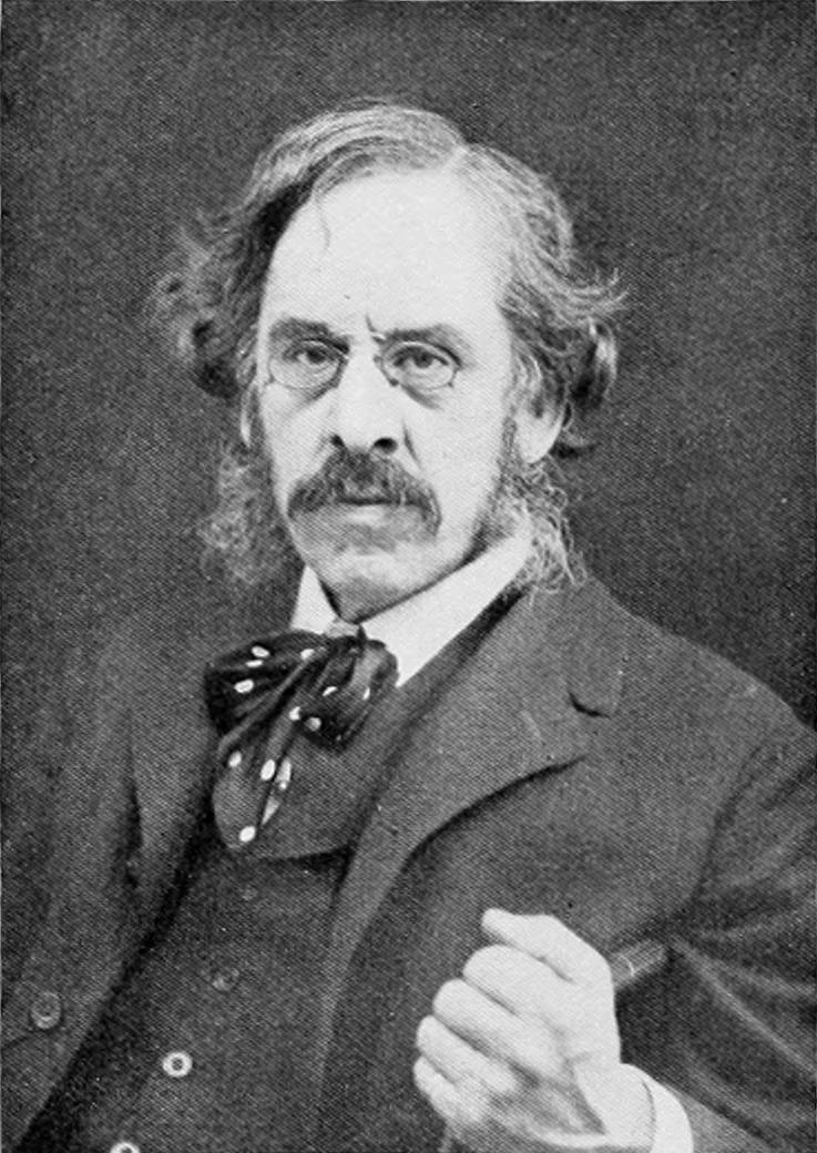 Photograph of Edwin M. Bacon (1844-1916), a writer and editor who worked for the Boston Daily Advertiser and The Boston Globe and also wrote books about Boston, Massachusetts, and New England.